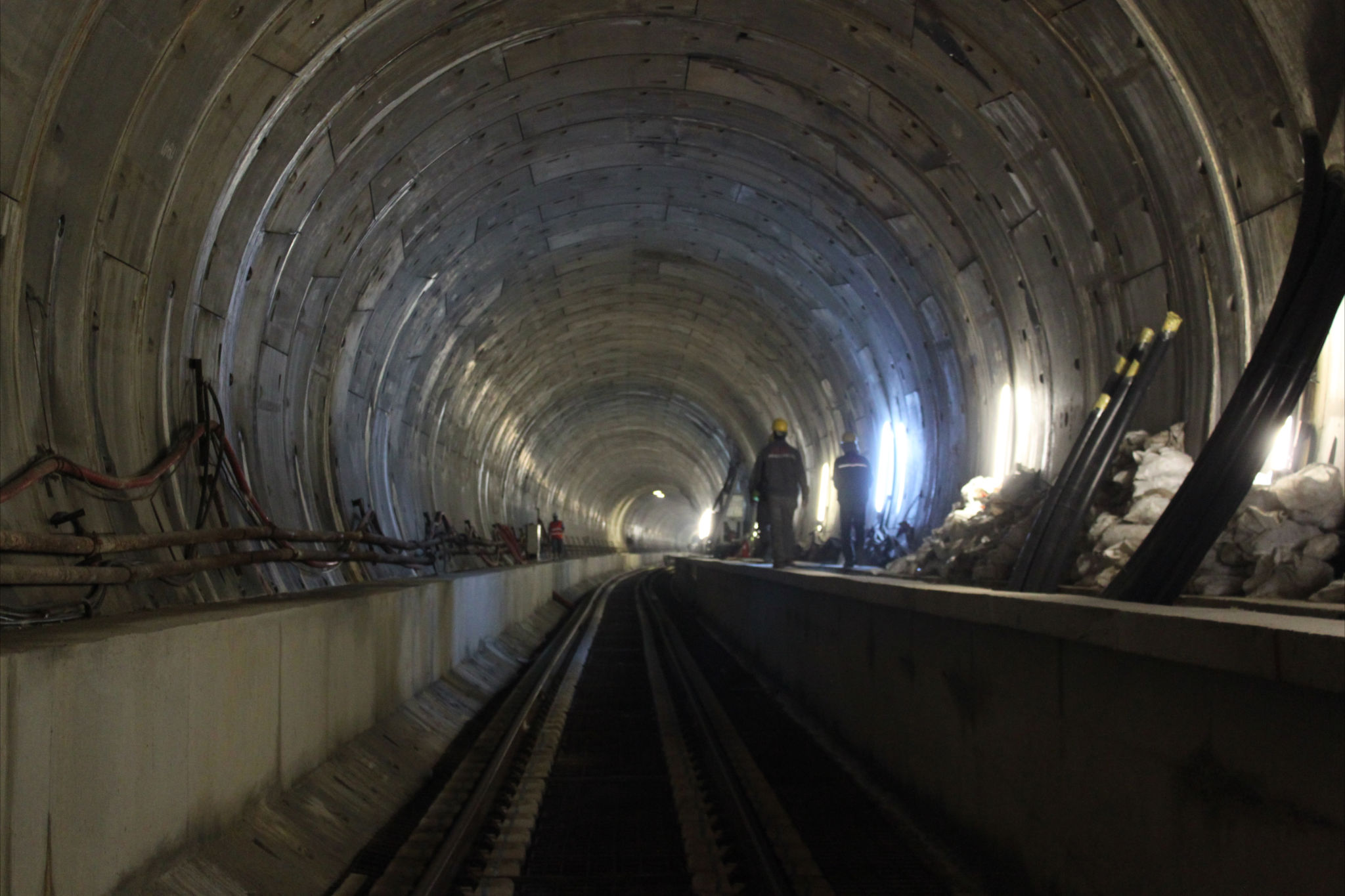 Marmaray Projesi